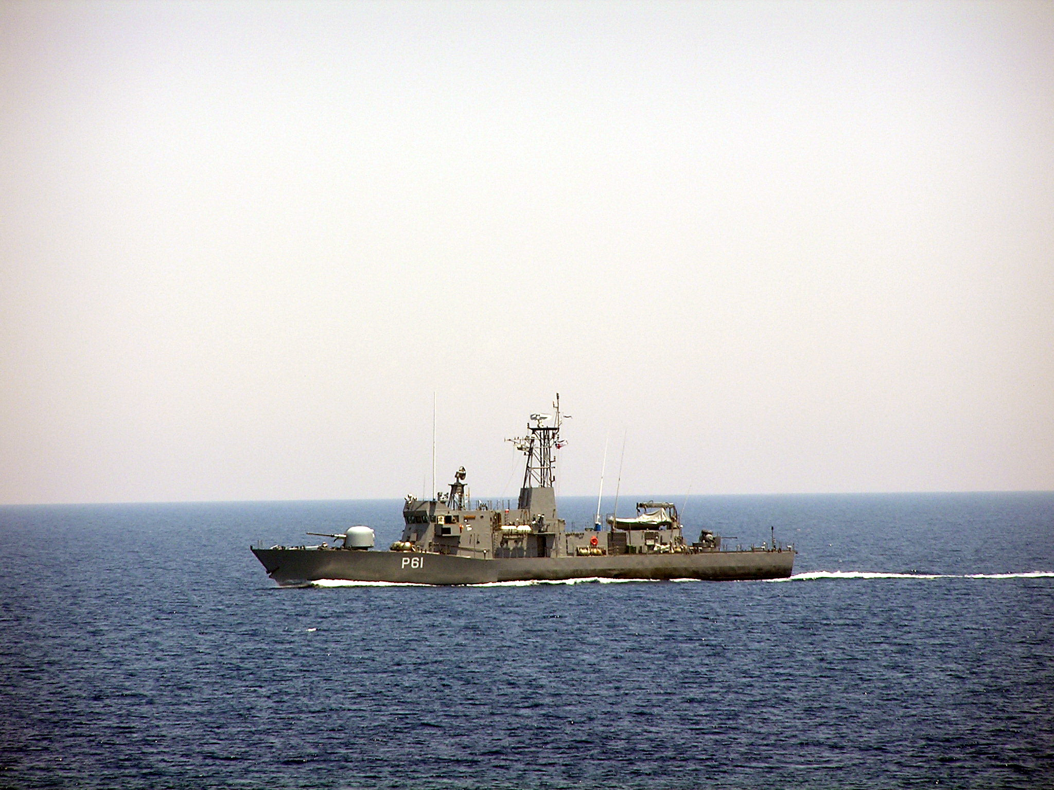 Grecian gunboat Polemistis (P 61)